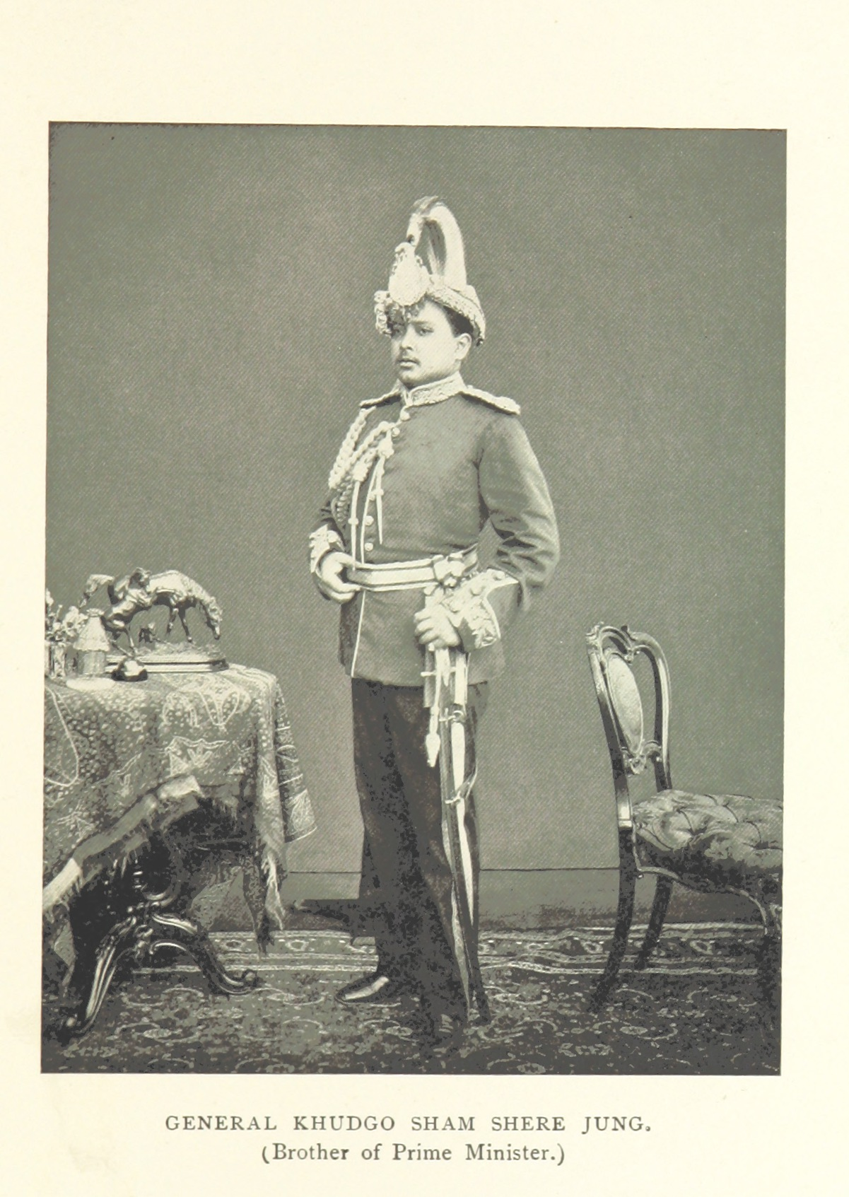 Khadga Shamsher Jang Bahadur Rana, second son of Commander-in-Chief Dhir Shamsher, became Commander-in-Chief of Nepal Army after the 1885 coup